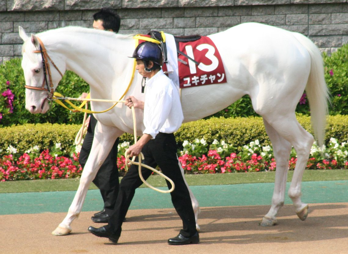 Yuki-chan (2005-), a Japanese thoroughbred. Sire: Kurofune (1998-). Dam: Shirayuki-hime (1996-).